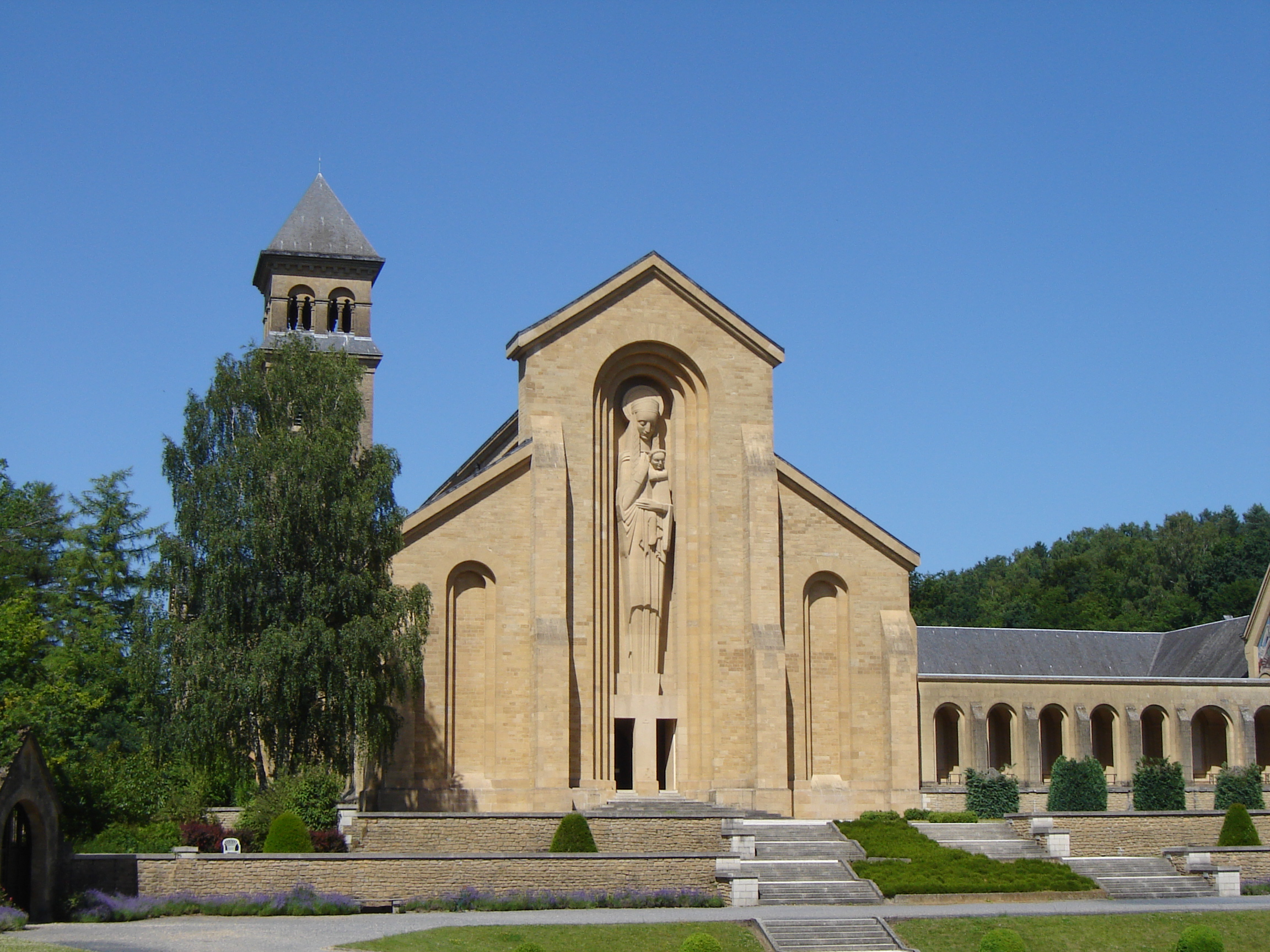 Church of the Abbaye d'Orval (Orval Abbey). Villers-devant-Orval, Florenville, Luxembourg, Belgium